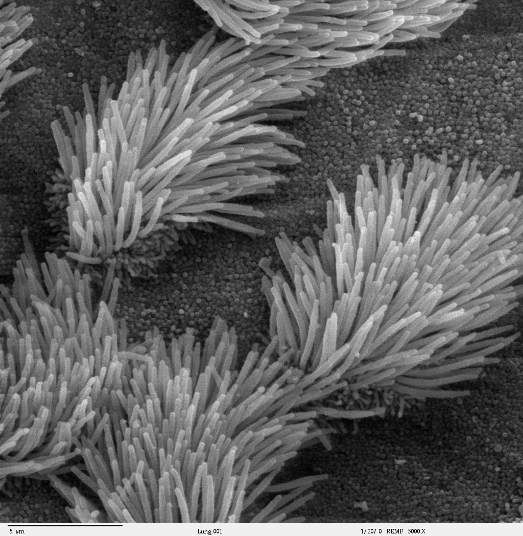 Scanning electron microscope image of lung trachea epithelium. There are both ciliated and non-ciliated cells in this epithelium. Note the difference in size between the cilia and the microvilli (on the non-ciliated cell surface). Zeiss DSM 962 SEM